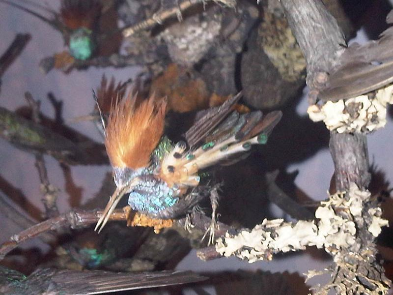 Taxidermied Tufted Coquette (Lophornis ornatus) at the Natural History Museum in London, England.